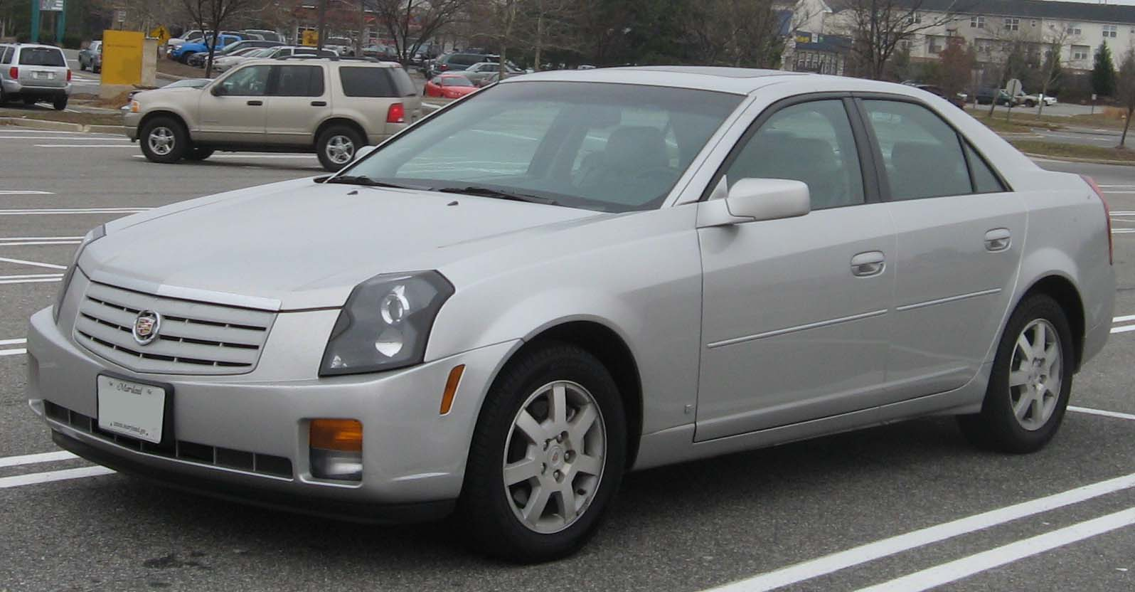 2003-2007 Cadillac CTS photographed in Waldorf, Maryland, USA.